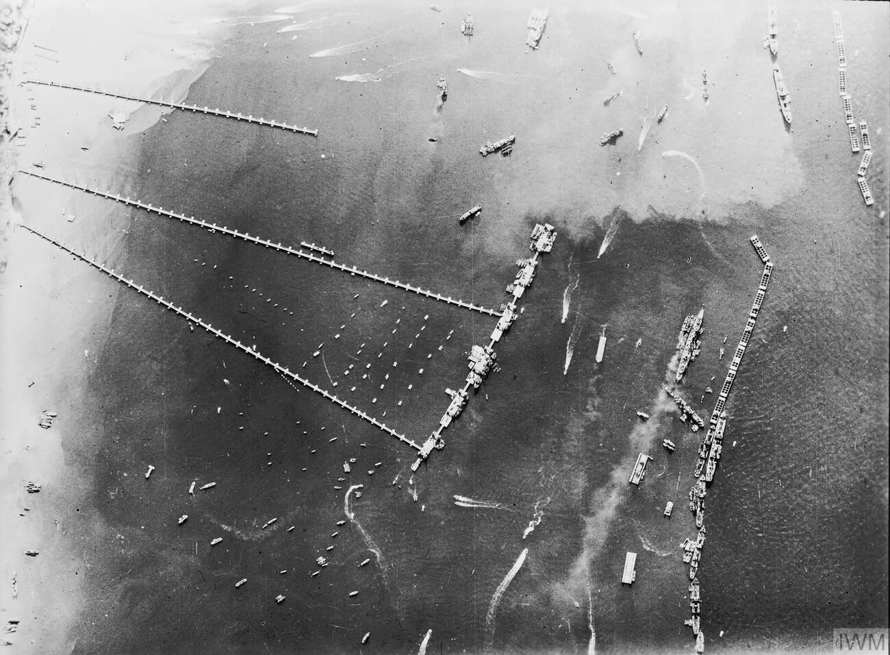 An aerial view of the pierhead and breakwater at the artificial 'Mulberry B Harbour' at Arromanches (Goosberry 3). Original description: "Allied Harbour Mulberry B: This photo shows the roadways and spud pierheads of the West Pier, Central Pier and East Pier. The small dots beside the roadways are barges supporting a cable used to protect the piers from small craft. A partial view of the Blockships and PHOENIX is obtainable. The calm water in the harbour can again be noted."